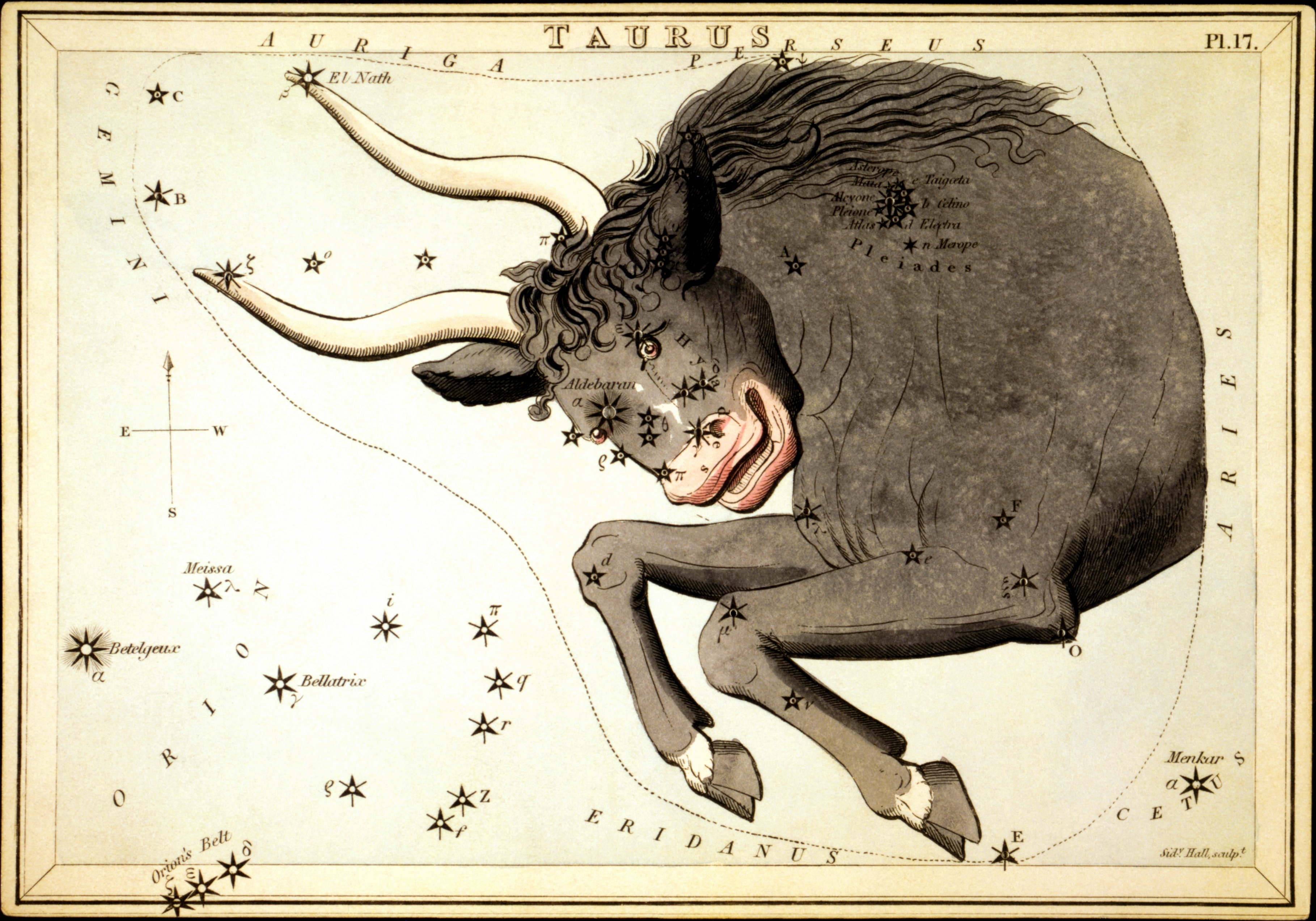 Taurus, Astronomical chart showing a bull forming the constellation. 1 print on layered paper board : etching, hand-colored